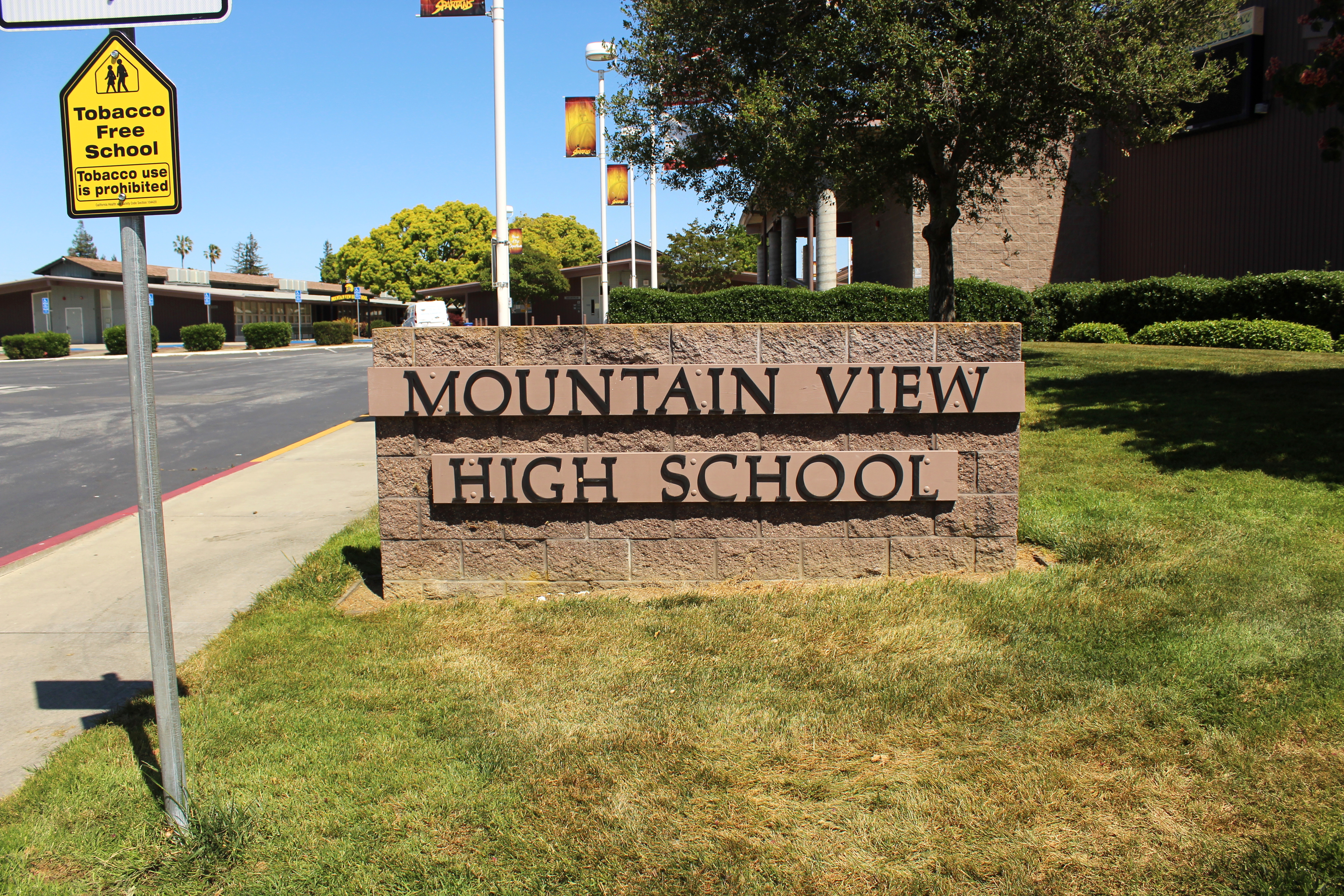 Mountain View High School front sign in may 2020